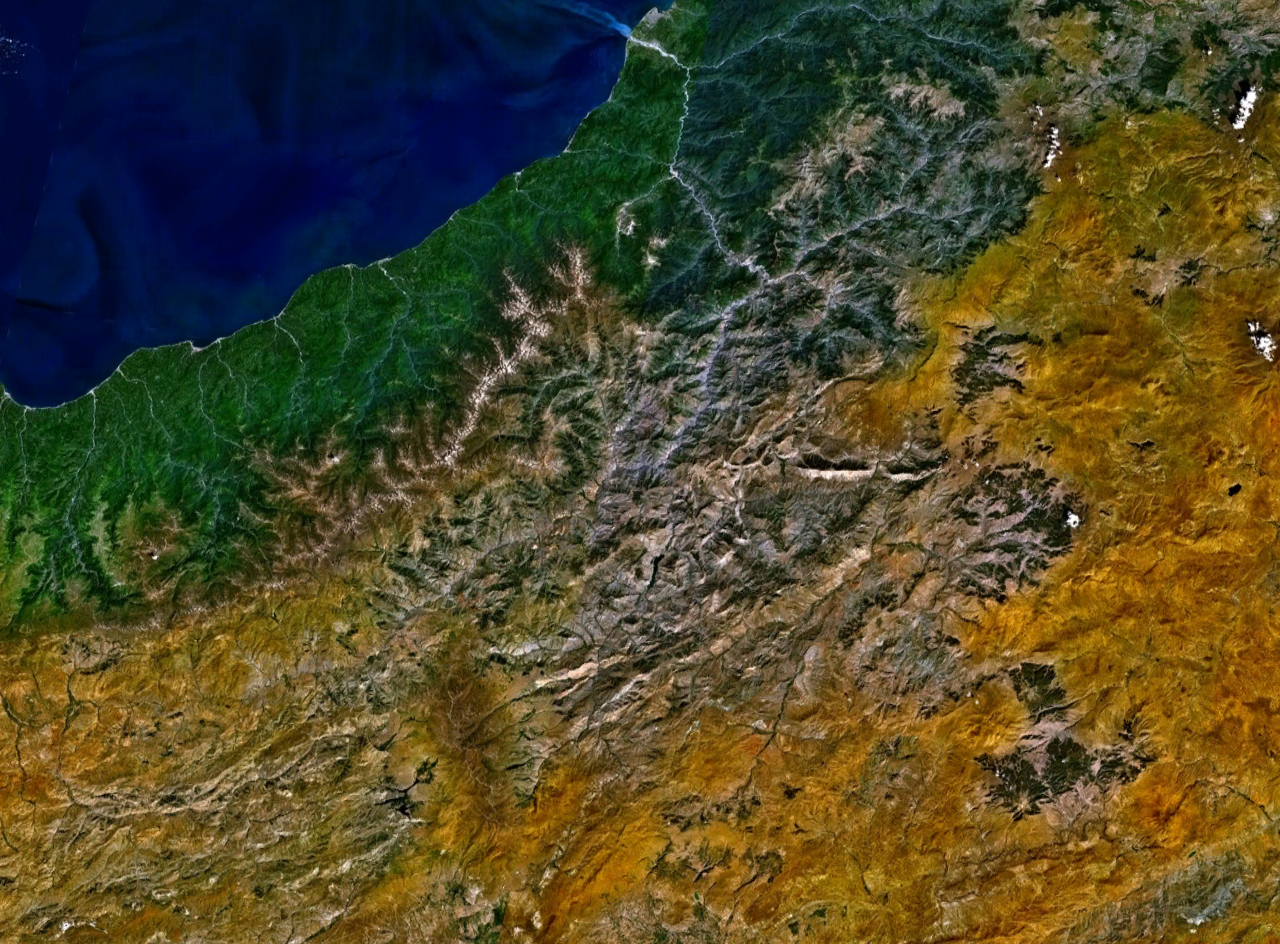 Satellite image of Kaçkar mountain range. Turkey.